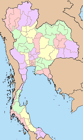 Map of Thailand (Siam) with the provincial boundaries as of 1915 and the Monthon colorcoded